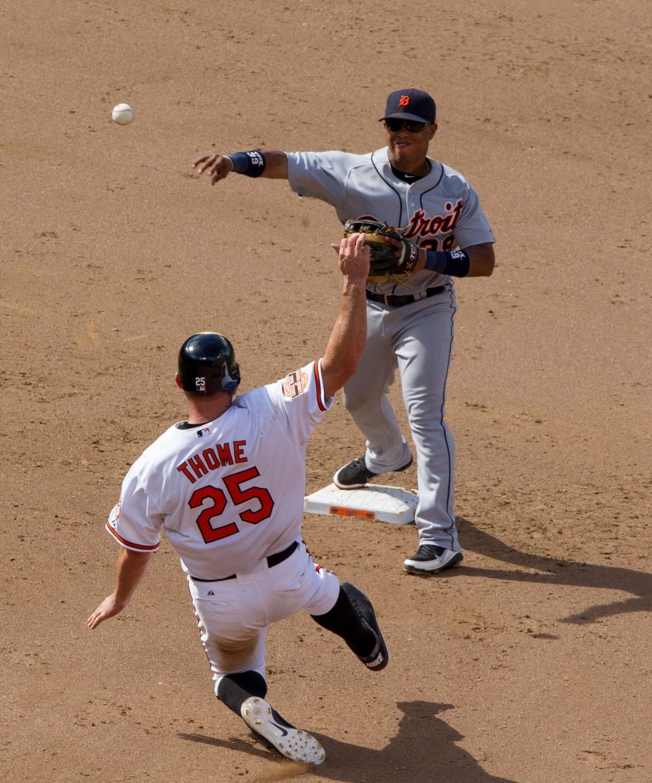 Detroit Tigers second baseman Ramon Santiago (39) starts the double play as Baltimore Orioles designated hitter Jim Thome (25) is out at second base in a game at Oriole Park at Camden Yards in Baltimore, MD on July 15, 2012.